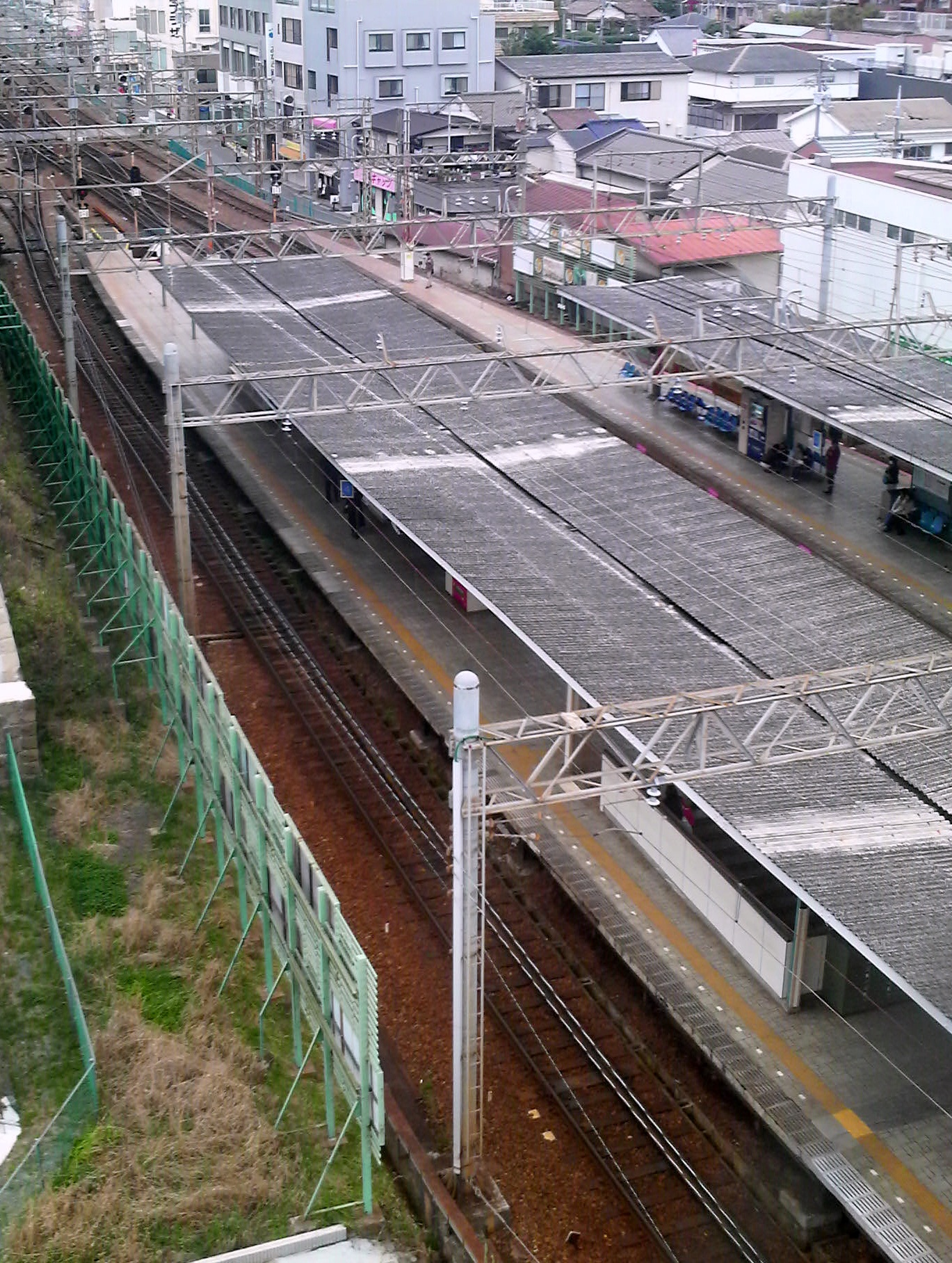 Suzurandai Station platforms seen from the Daiei store nearby